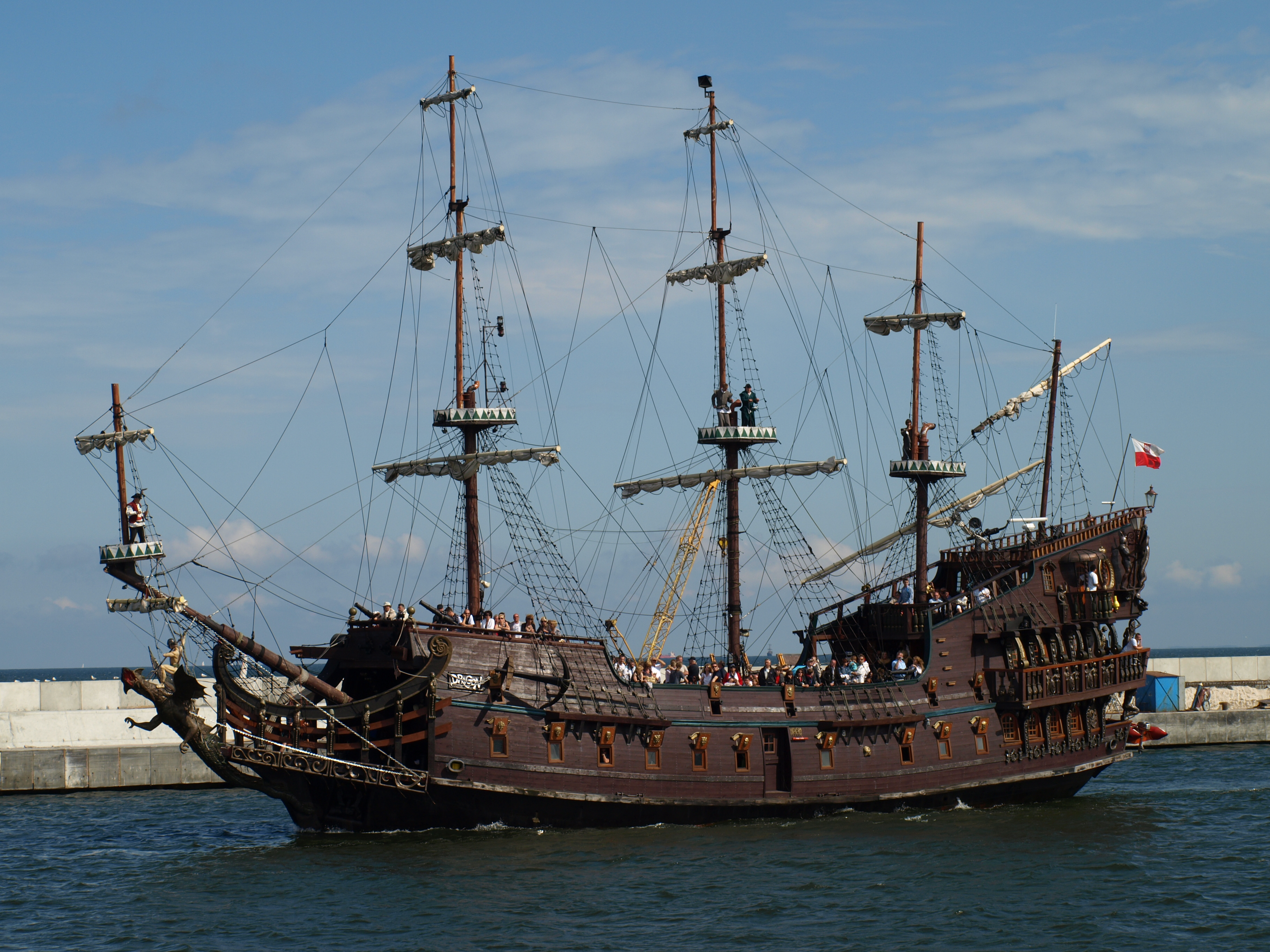 MS Dragon, a stylized galeon-like cruise ship, Tall Ships' Races, Gdynia, 2009